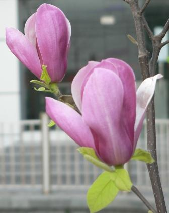 Mulan Magnolia (Magnolia liliiflora)